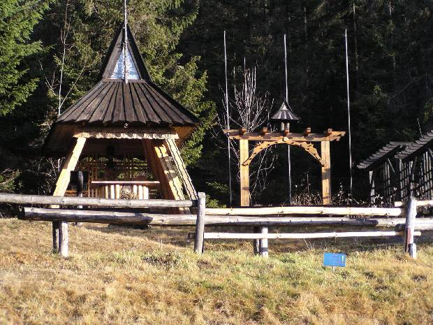 Polish Scouting and Guiding Association (ZHP) Mountain Hut "Głodówka"